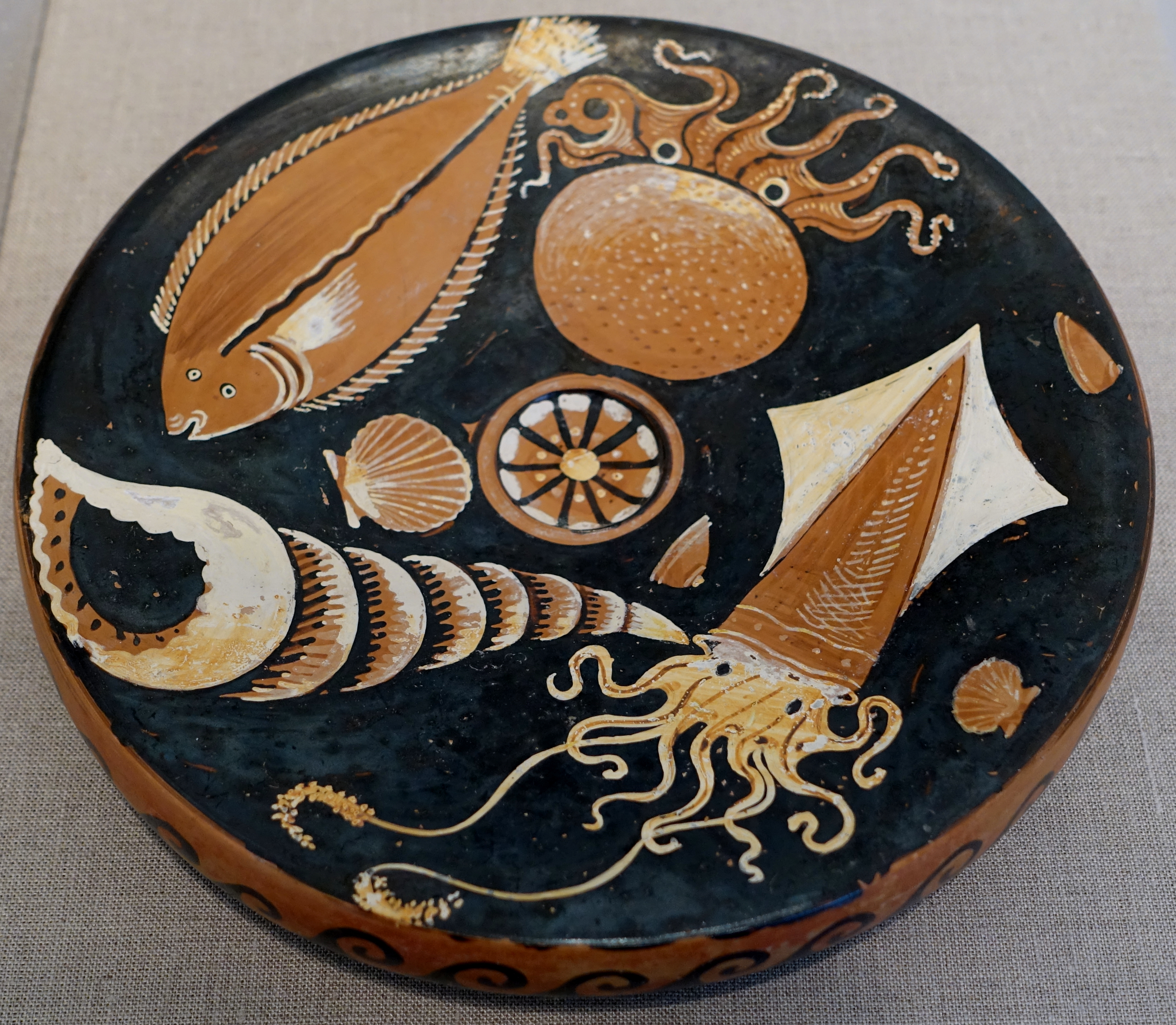 Exhibit in the Blanton Museum of Art - Austin, Texas, USA. This work is old enough so that it is in the public domain.